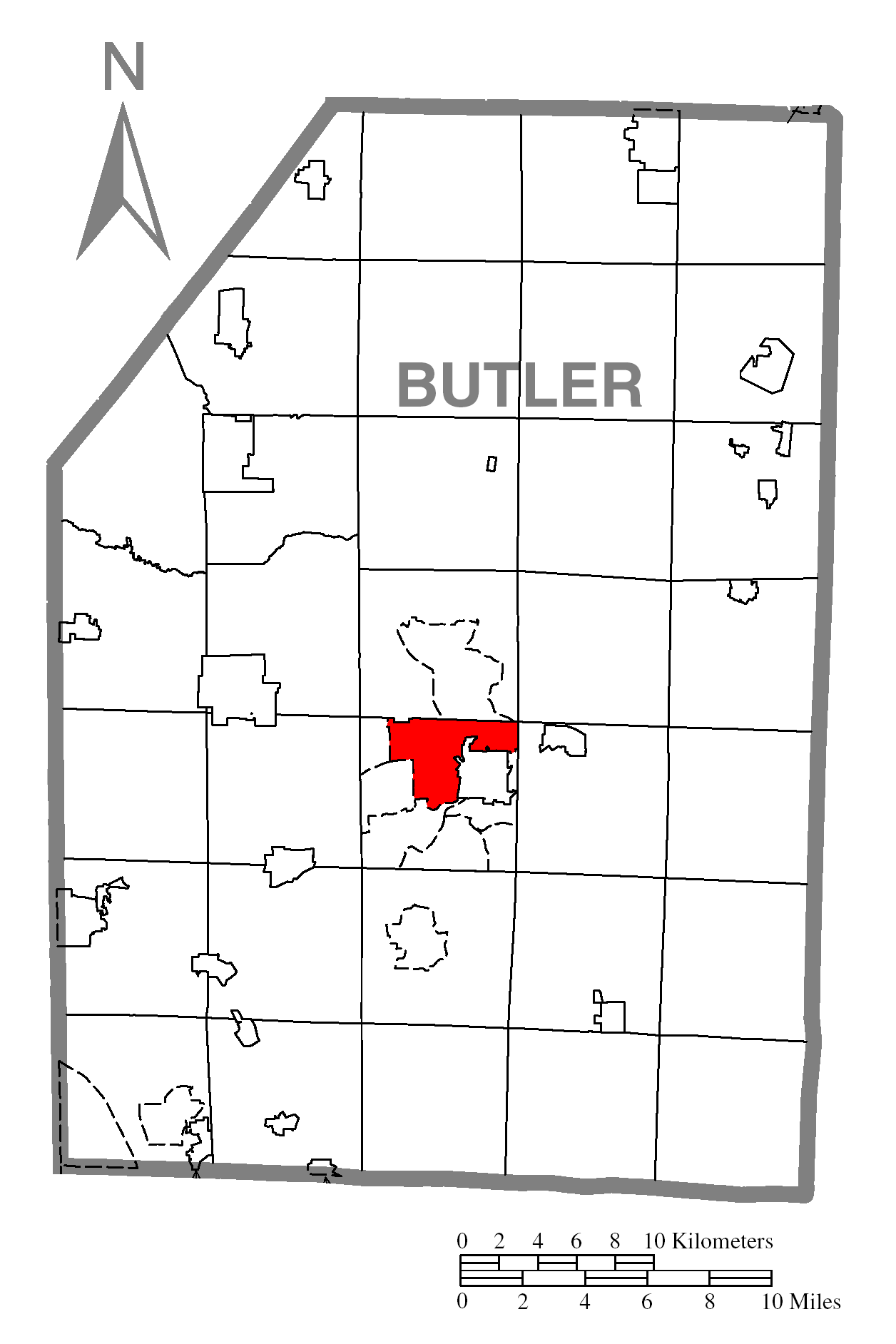 A map of Butler County showing Homeacre-Lyndora, Pennsylvania (alternate) highlighted on the map.